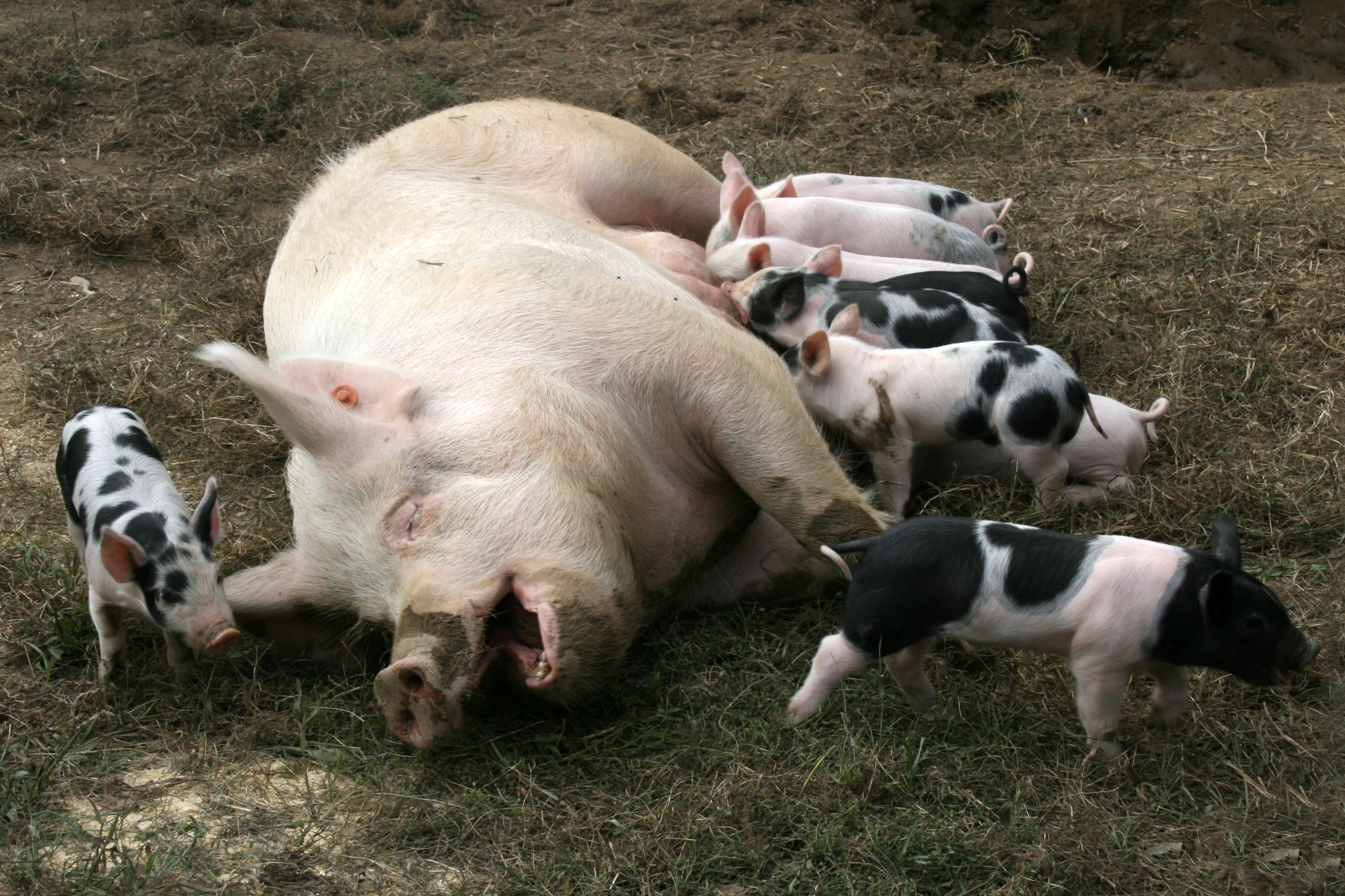 Pig lactation, a sow suckling her piglets